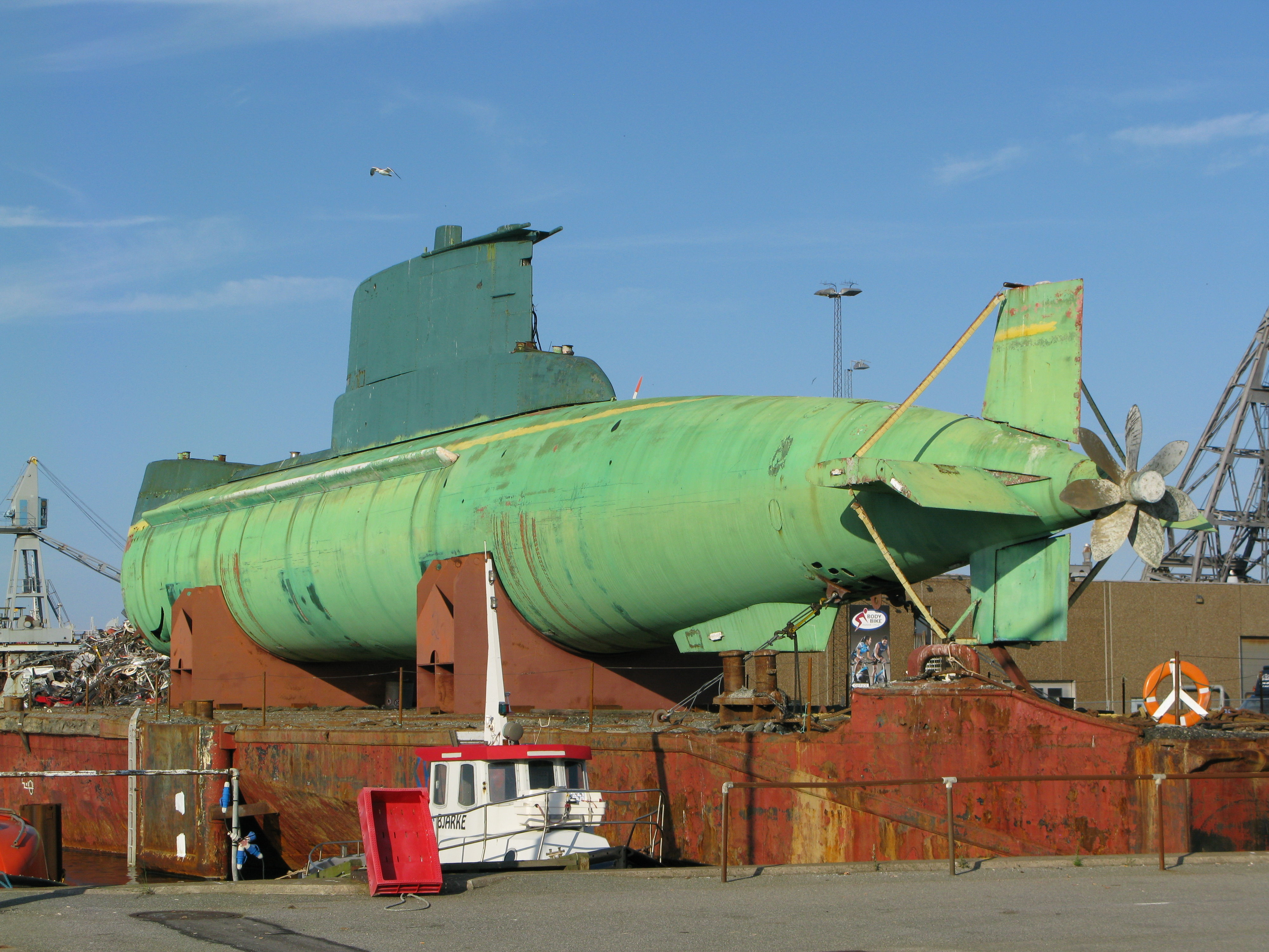 israeli submarine in the harbour of Frederikshavn, Northern Denmark